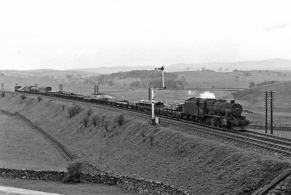 Up freight train near Bell Busk. View northward across the ex-Midland main line, Leeds/Bradford - Skipton - Hellifield - Settle Junction - Carlisle/Morecambe, with Otterburn Moor and Kirby Fell in background. The train is headed by Stanier 8F 2-8-0 No. 48157.